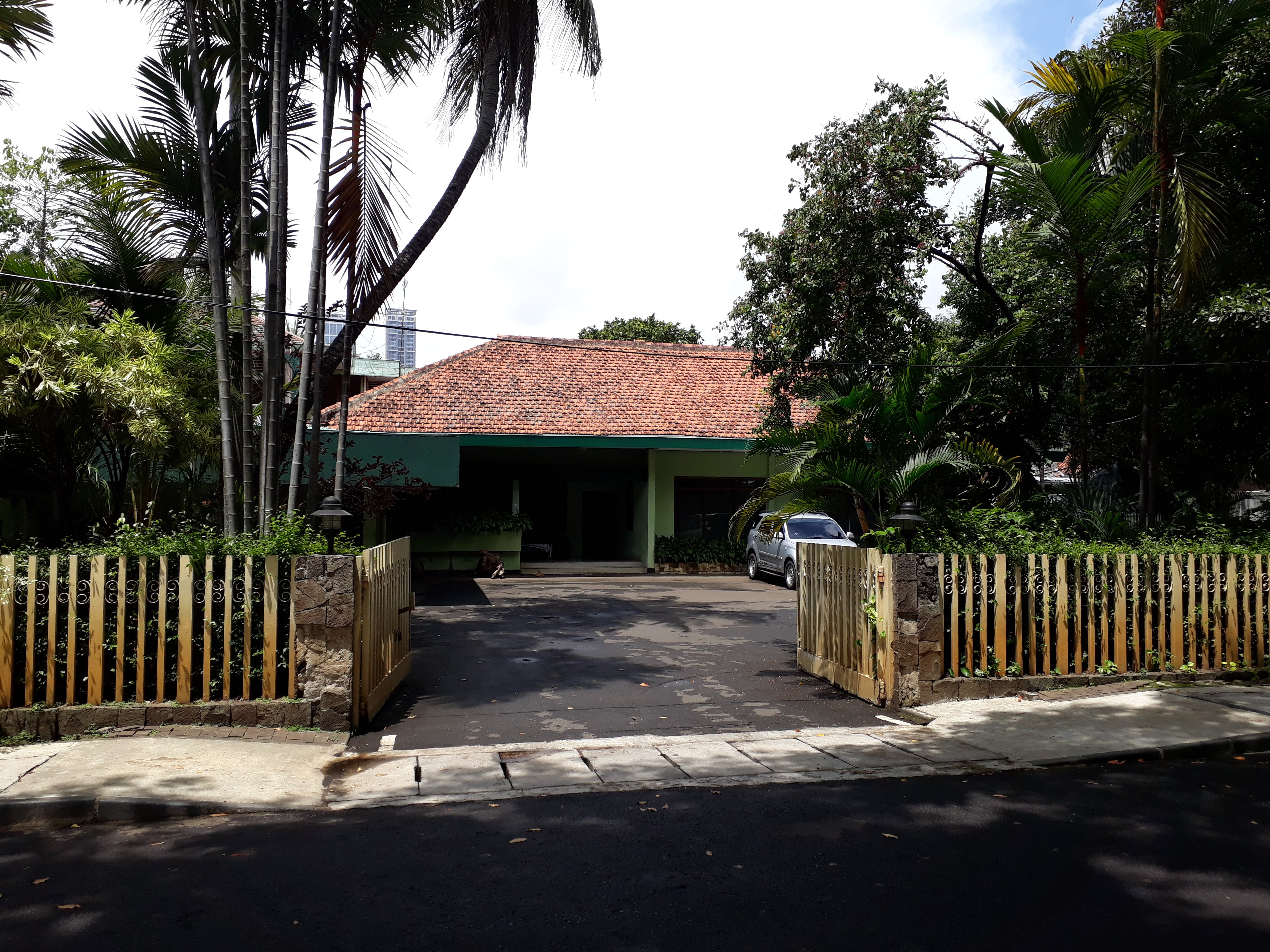 House of former Indonesian president Suharto, Jalan Cendana, Menteng, Jakarta